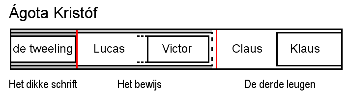 Twins trilogy: The Notebook, The Proof, The third lie